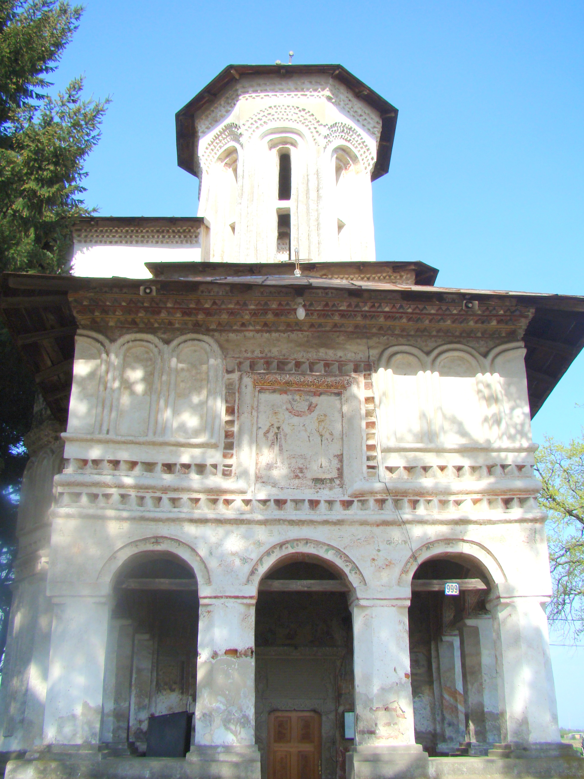 Saint Nicholas church in Telești, Gorj county, Romania